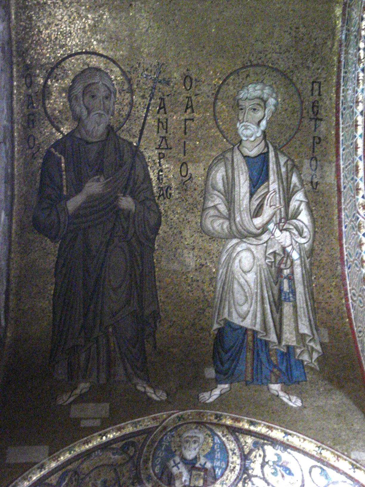 Apostles Peter and Andrew (Martorana)